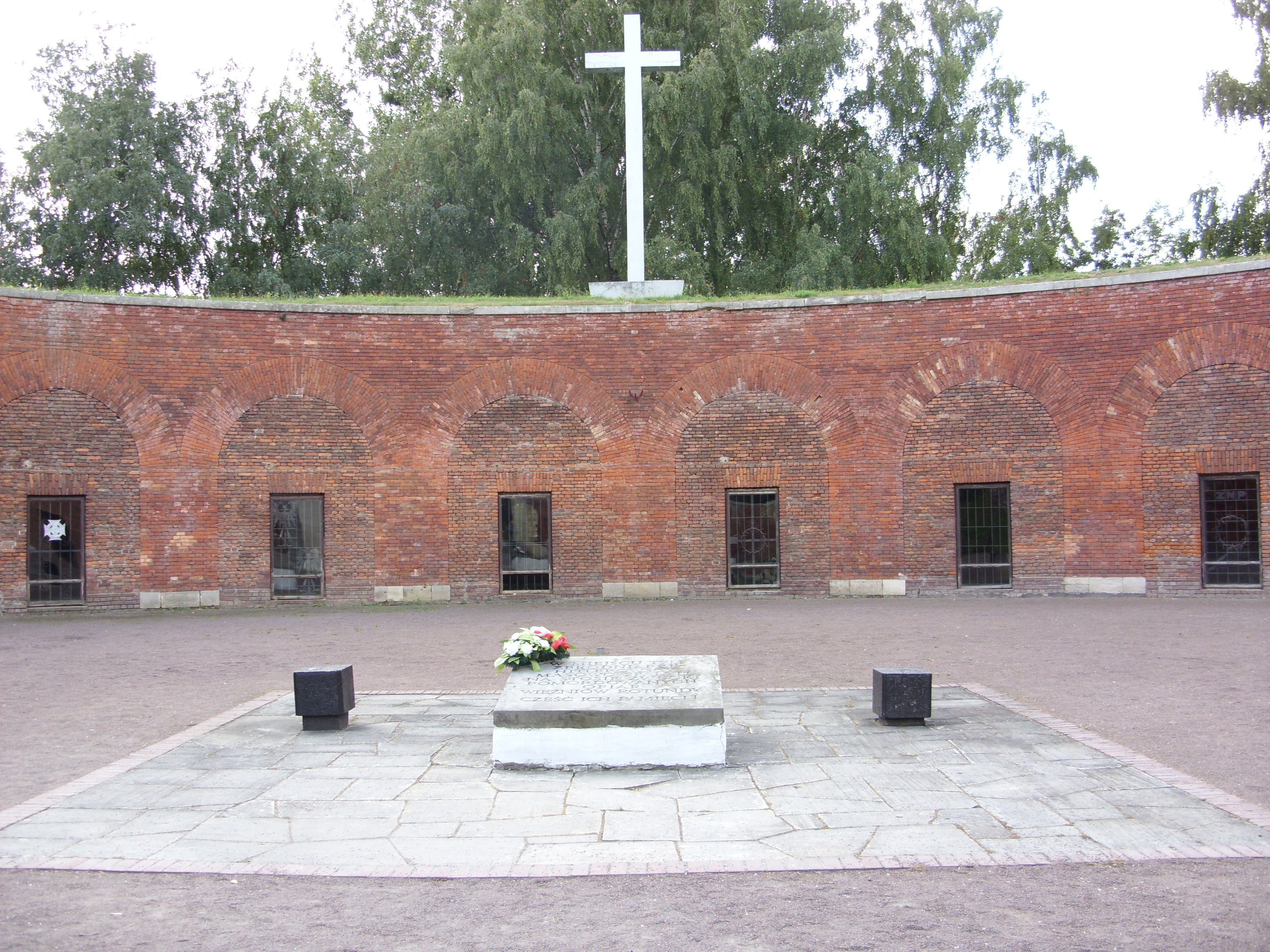 Rotunda Zamość, the place of martyrdom of the civilian population, including the children of the Zamość region. Former German Nazi Gestapo camp from 1940 to 1944